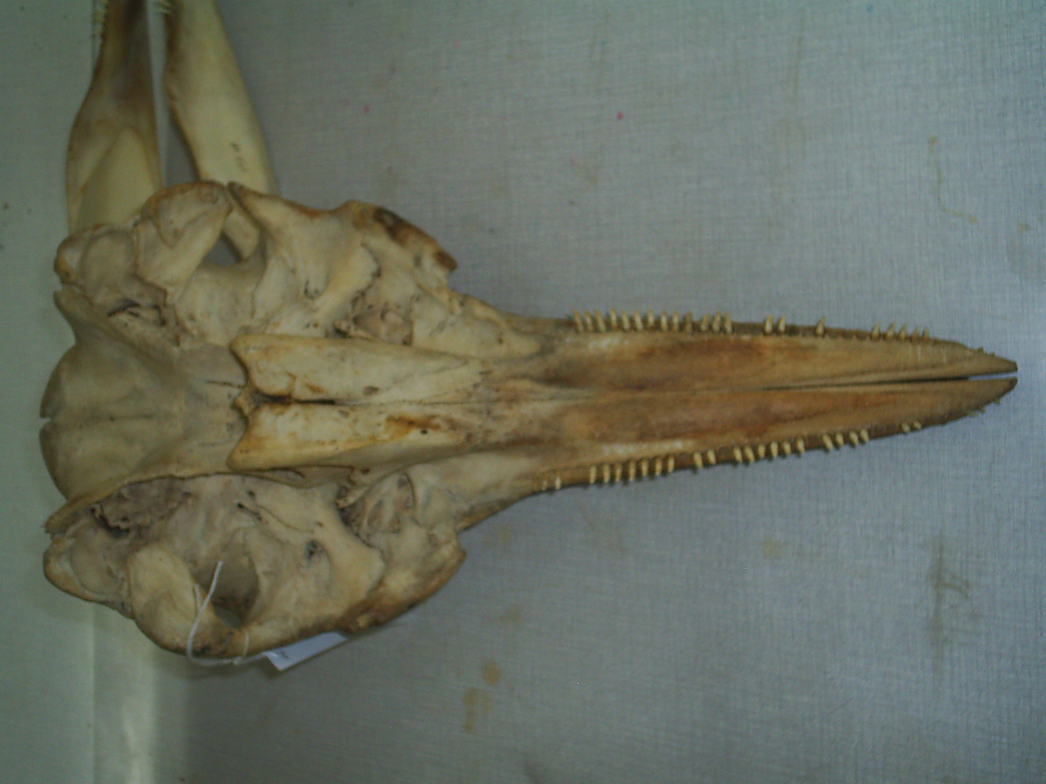 Dolphin skull